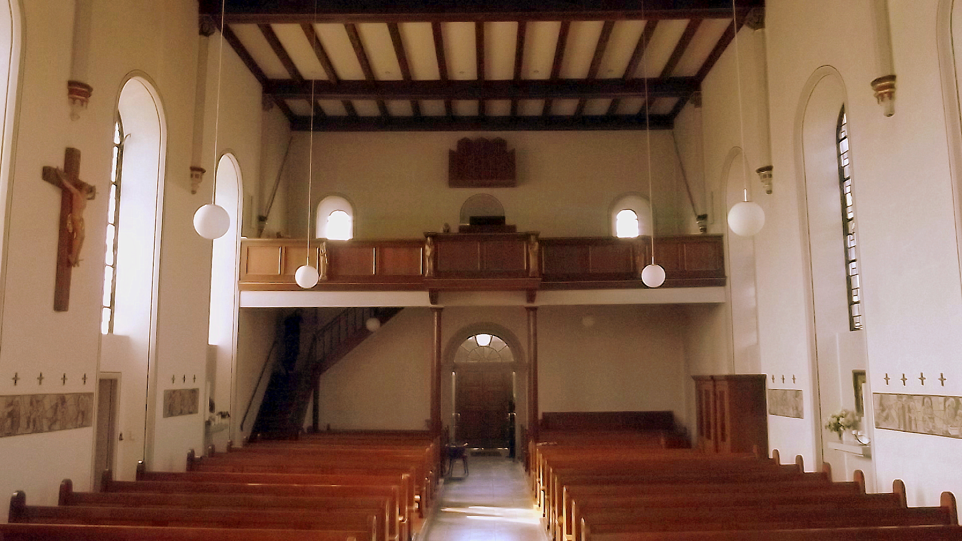 Interior of the roman catholic church in Tettingen-Butzdorf, Saarland, Germany